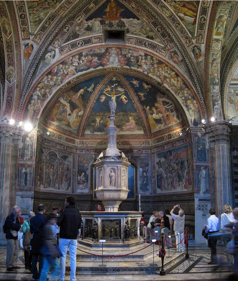 Baptismal font in the baptistry of Siena.